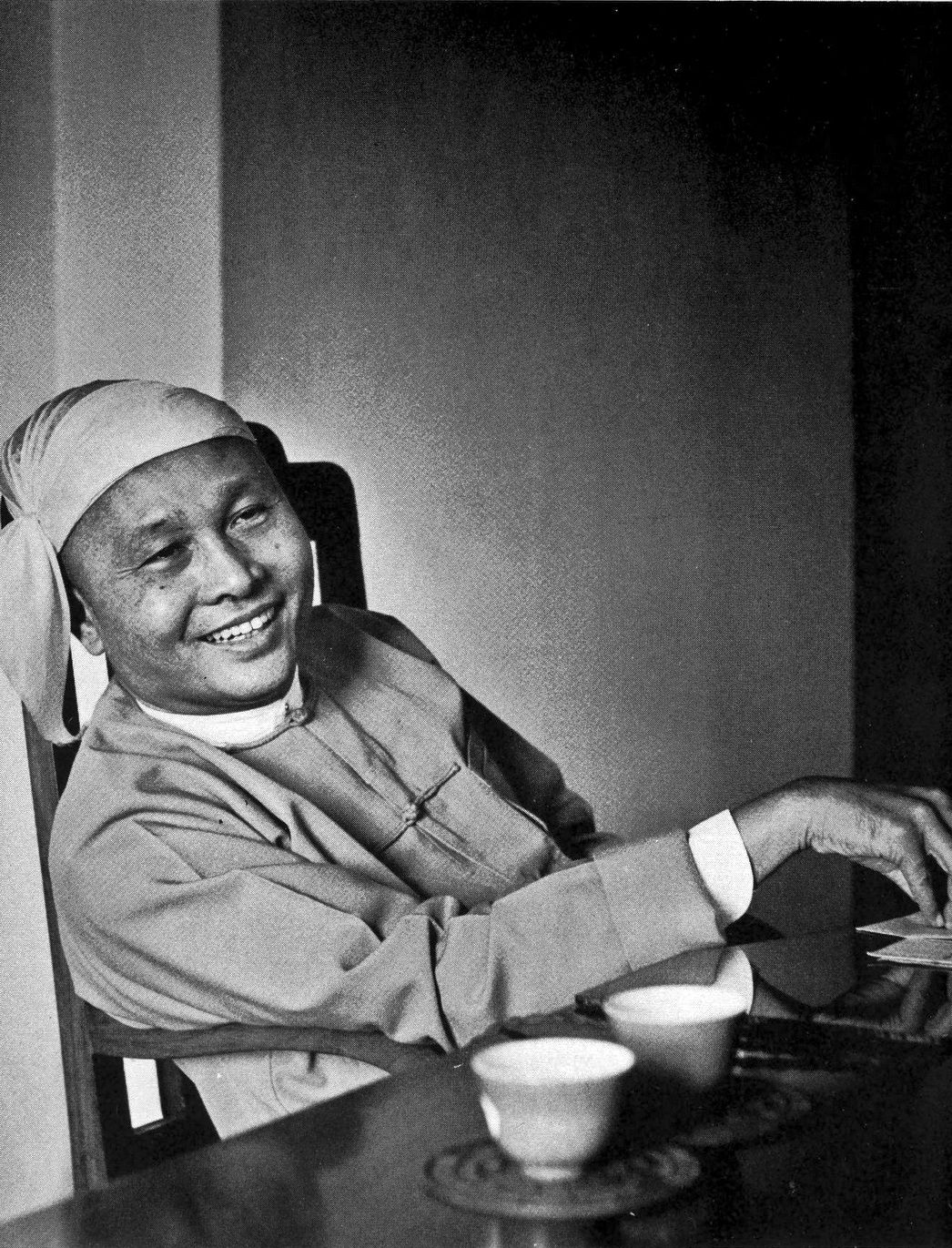 Undated photo of U Nu sitting